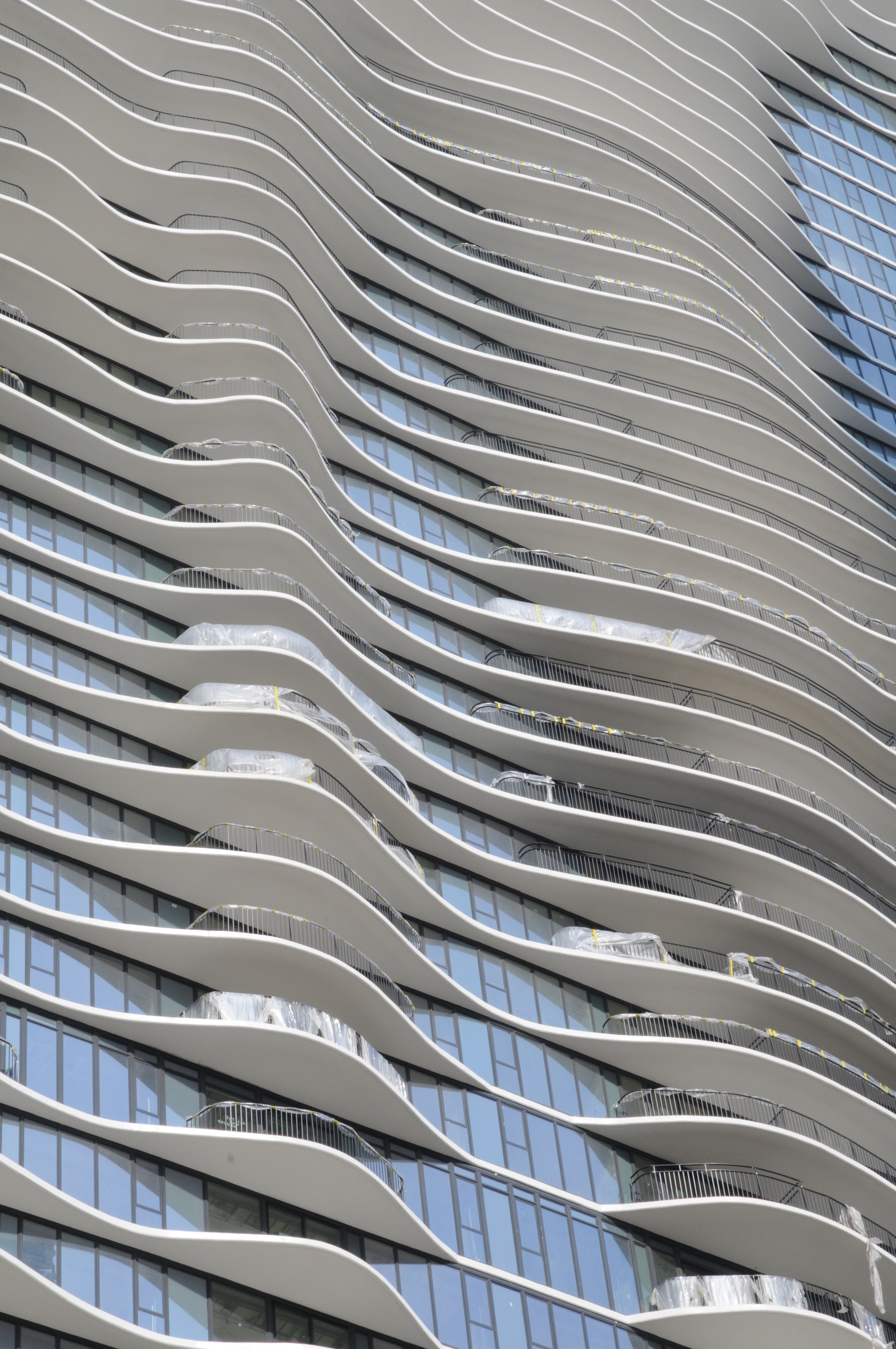 Photograph of the Aqua Tower, designed by Studio Gang Architects, and currently under construction in Chicago, IL. Detail of balconies.